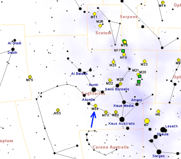 Map of M54